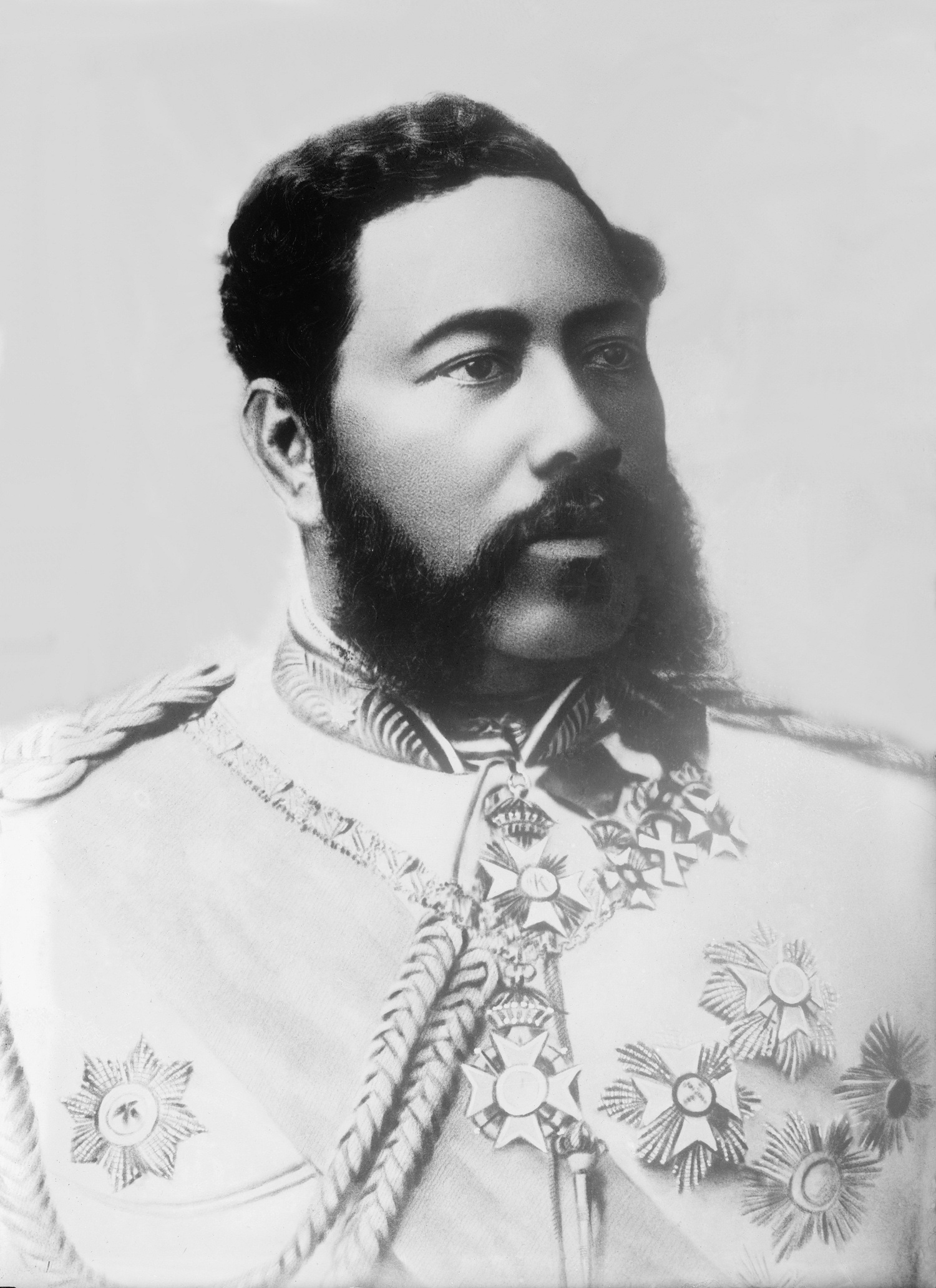 Library of Congress image of King David Kalakaua.